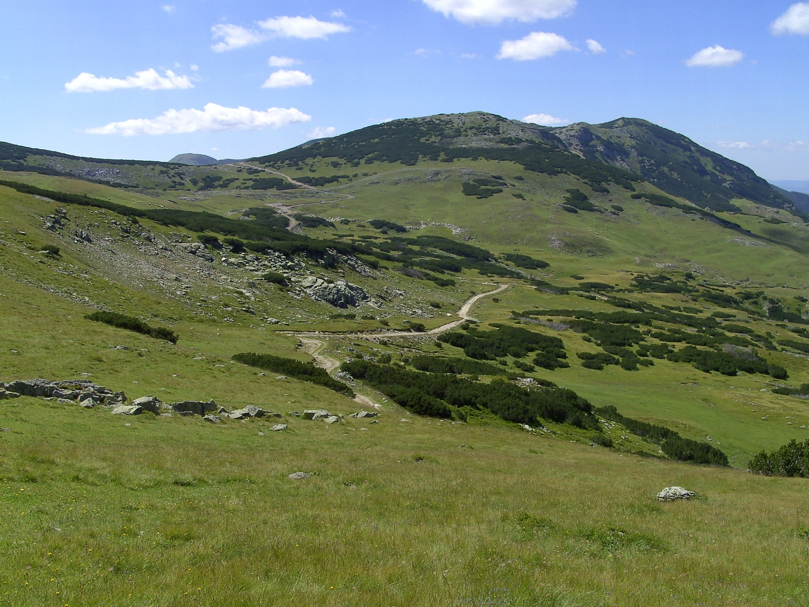 Sarajevska vrata mountain Pass, Vranica Mountains, BiH